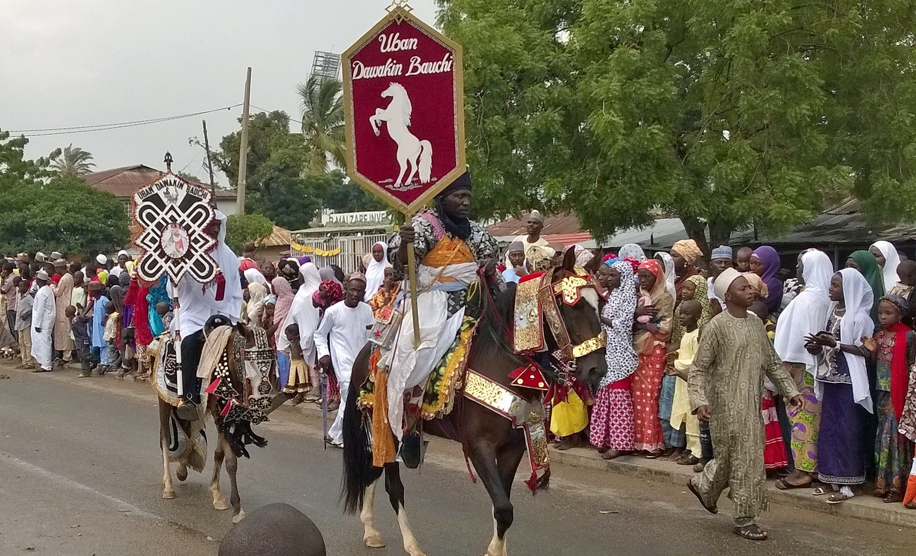 This pictures are taken during Eid-el Fitr celebrations locally known as Hawan Sallah or Hawan daushe (meaning Sallah riding) in Bauchi, Bauchi state. The horse riders dress and adorned in traditional (mostly Hausa warriors) regalia. This celebration can sometimes happens for marriage ceremonies and welcoming expatriate guest to the state. Note: Hausa is a tribe/language in most part of northern Nigeria This is an image of Cultural Fashion or Adornment from Nigeria